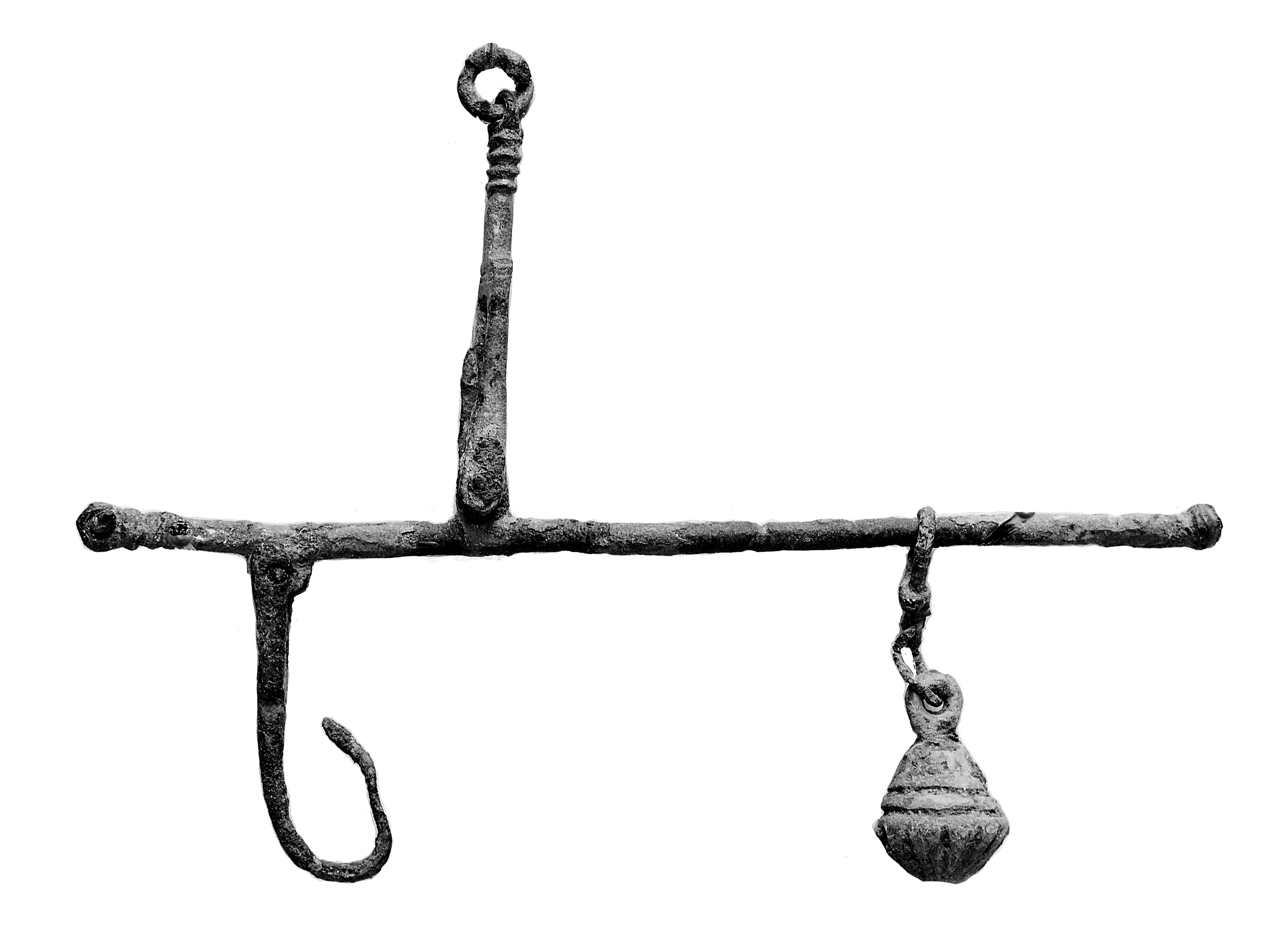 A Roman steelyard and weight Wellcome Images